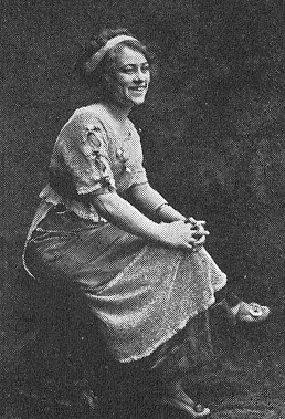 Coyla May Spring, from a 1915 publication. A young white woman, seated, hands folded across one knee. She is smiling, wearing a dress. Her hair is in an updo with a ribbon across the crown.